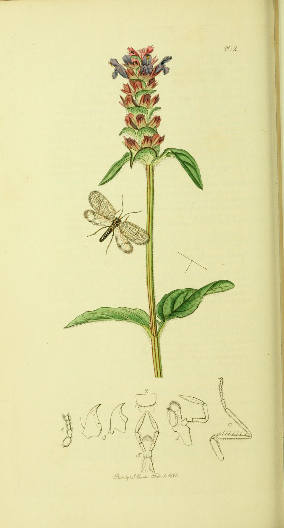 An illustration from British Entomology by John Curtis.Hemerobius fimbriatus the Bordered Brown Lacewing),Synonym Megalomus hirtus (Linn.)